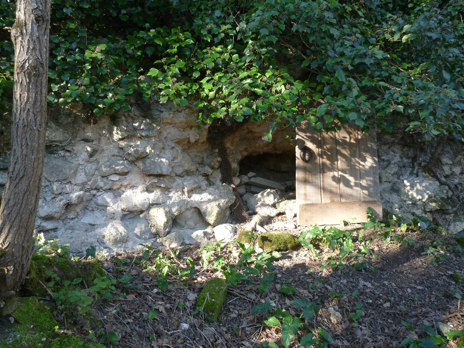 Former souterrain, foot of remains of castle of Touvre (near the church), Charente, SW France